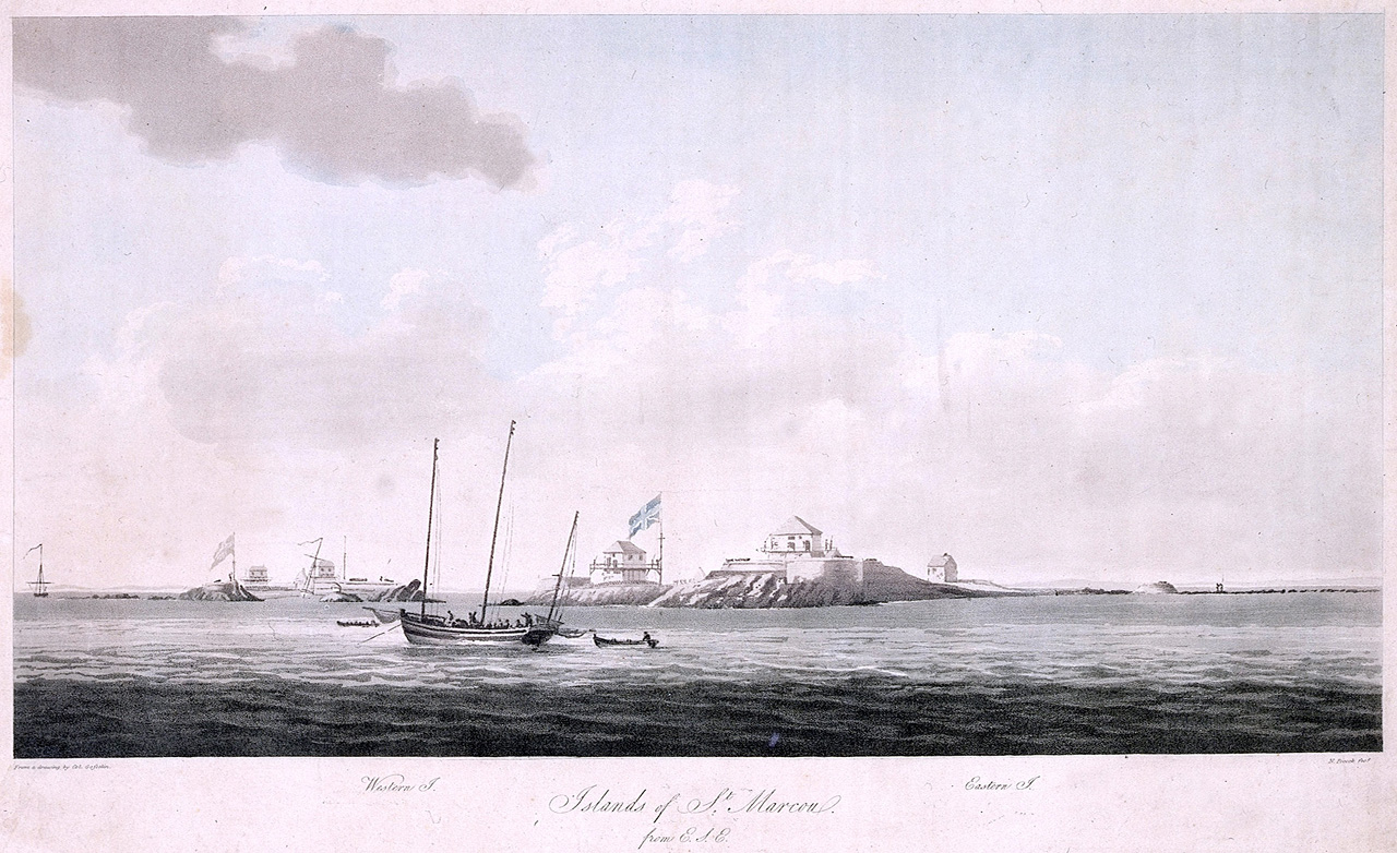 Engraving showing the failure of the French attempt to recover the islands in 1798